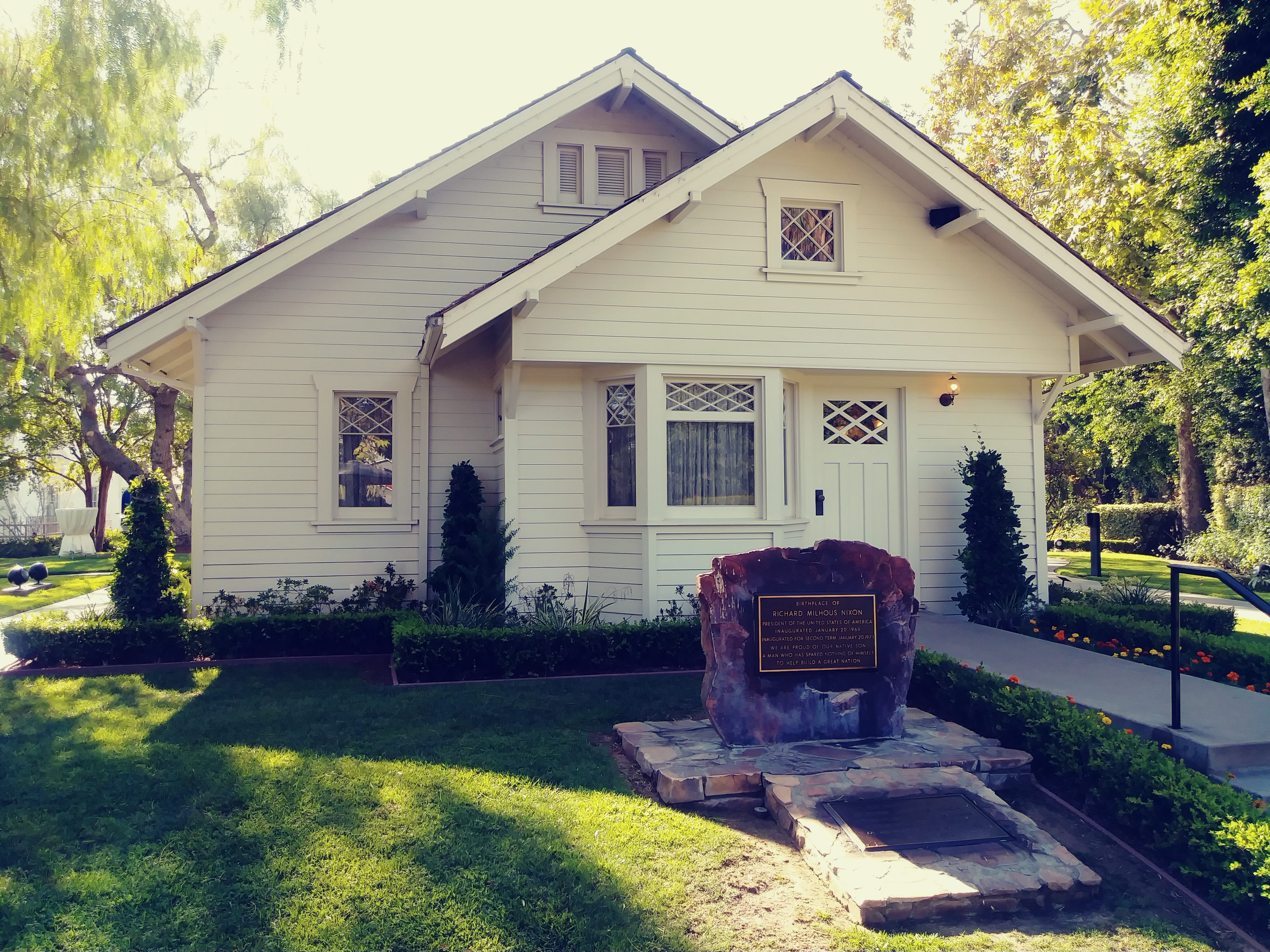 Richard Nixon Birthplace